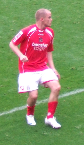 Iain Hume. Image cropped from original at Flickr.